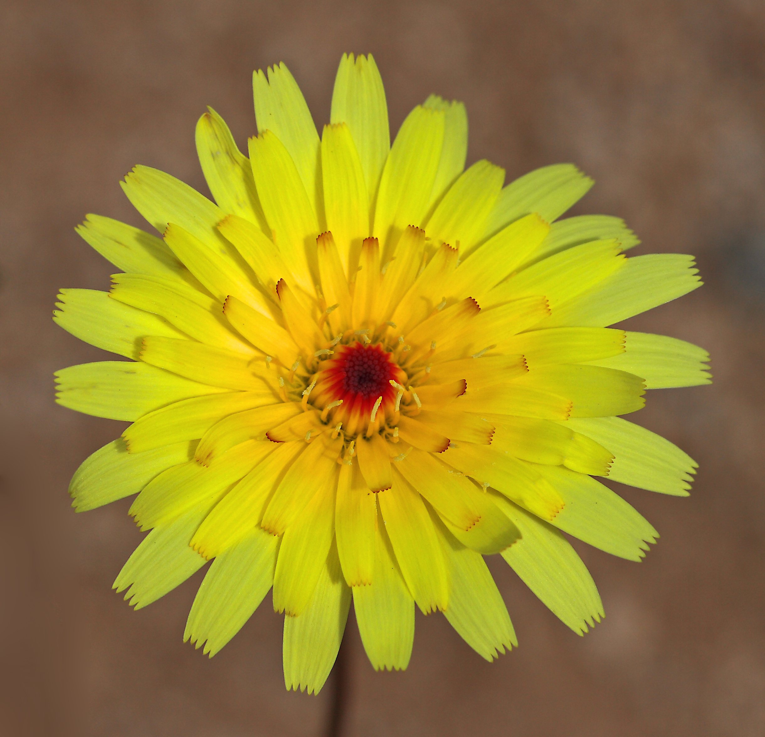 desert dandelion Malacothrix glabrata, mojave desert, california